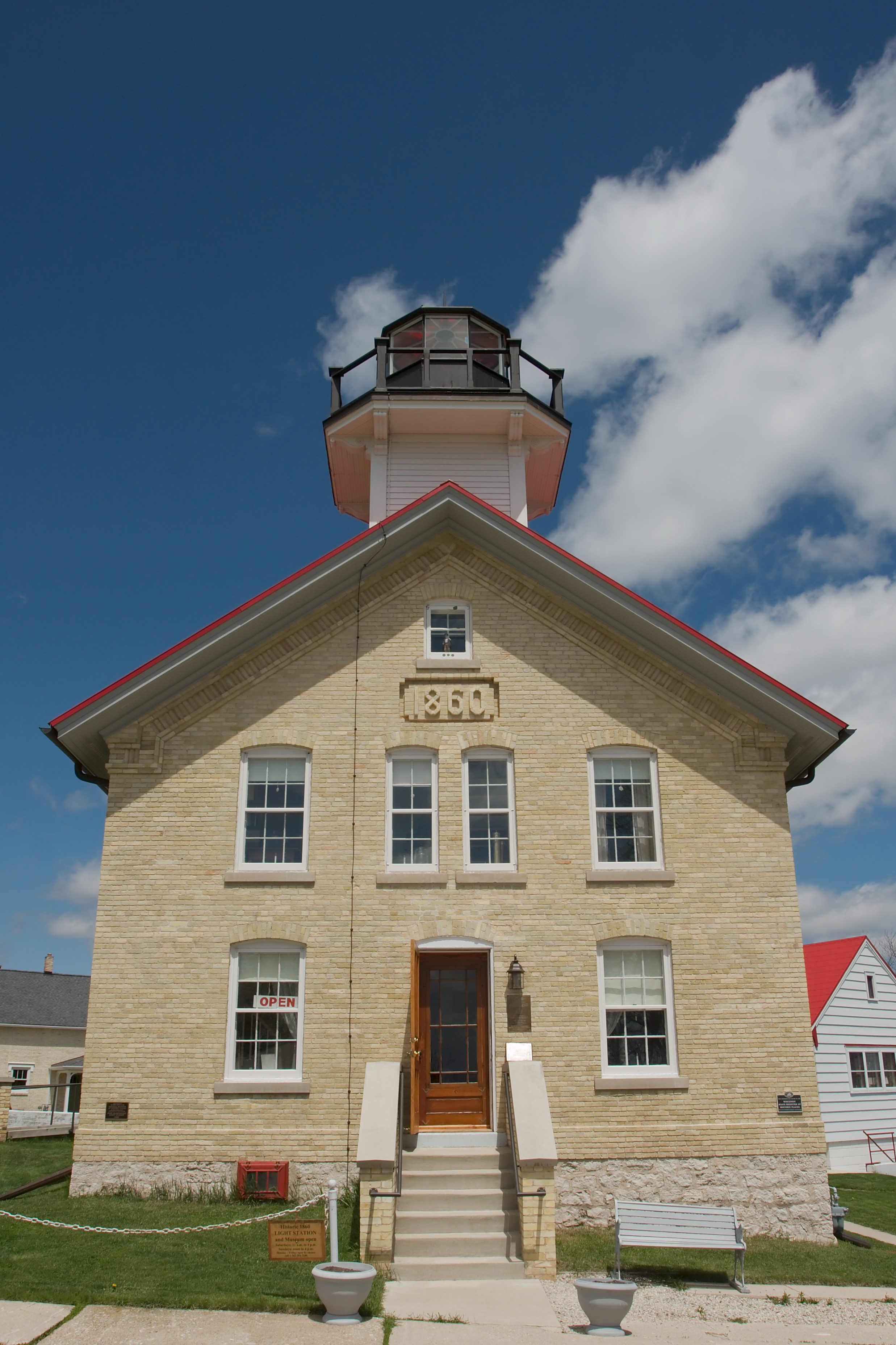 Port Washington Lighthouse Museum, Port Washington, Wisconsin